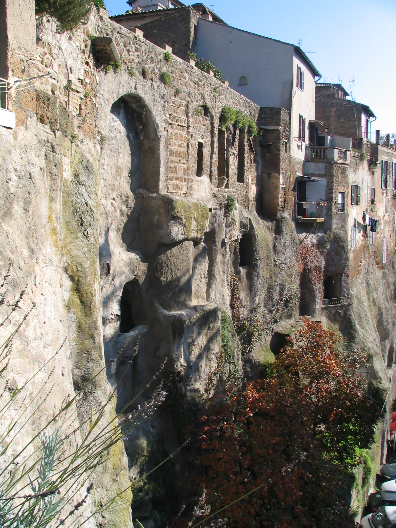 Cliff-side houses in Orte (VT) Italy